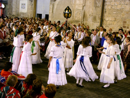 fourth folk troupe in the Virgin of Salut feasts perform their «artichoke dance» in front of Saint James church in Algemesí